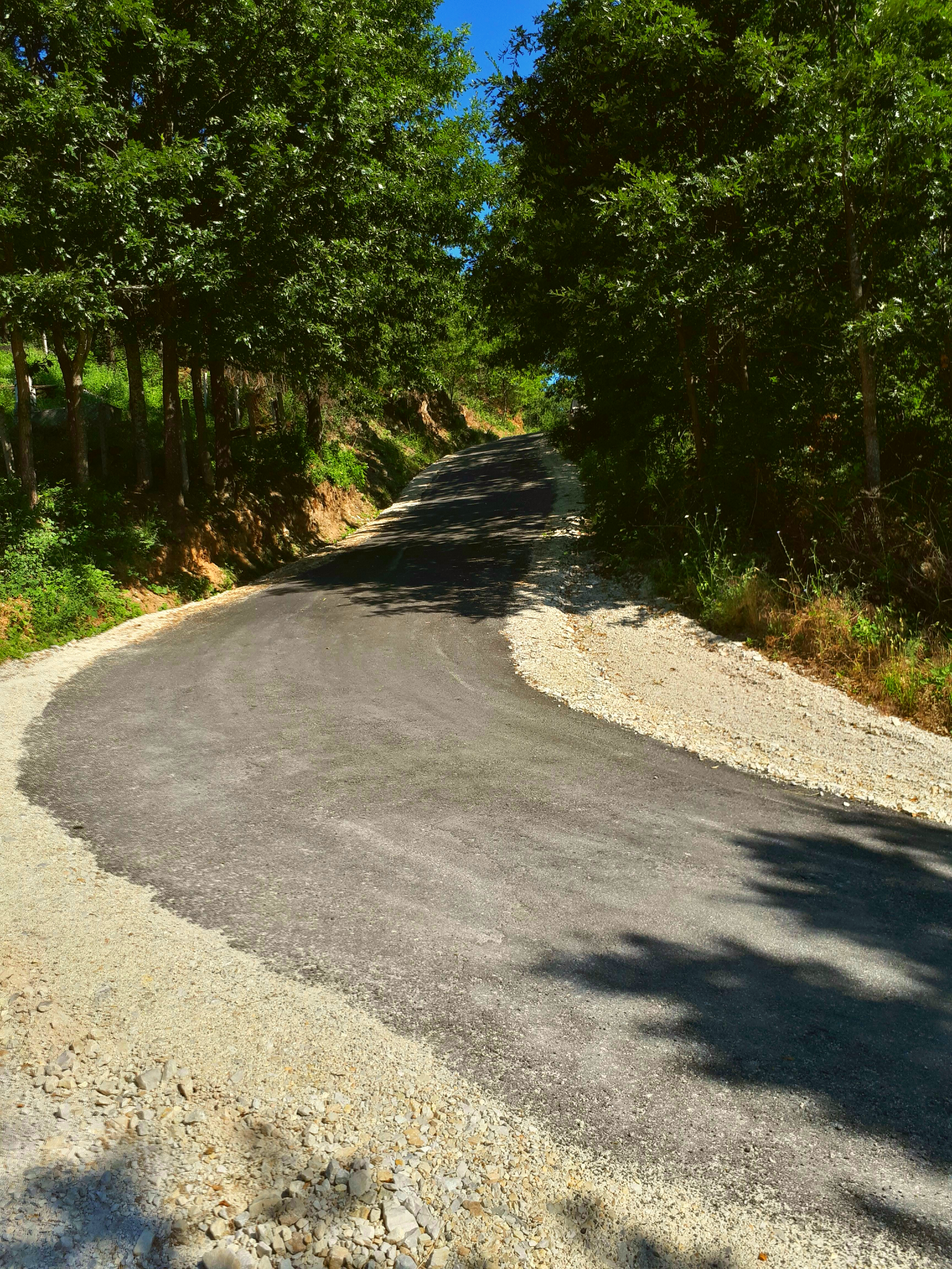 Road to the village Zvečan, Porečje